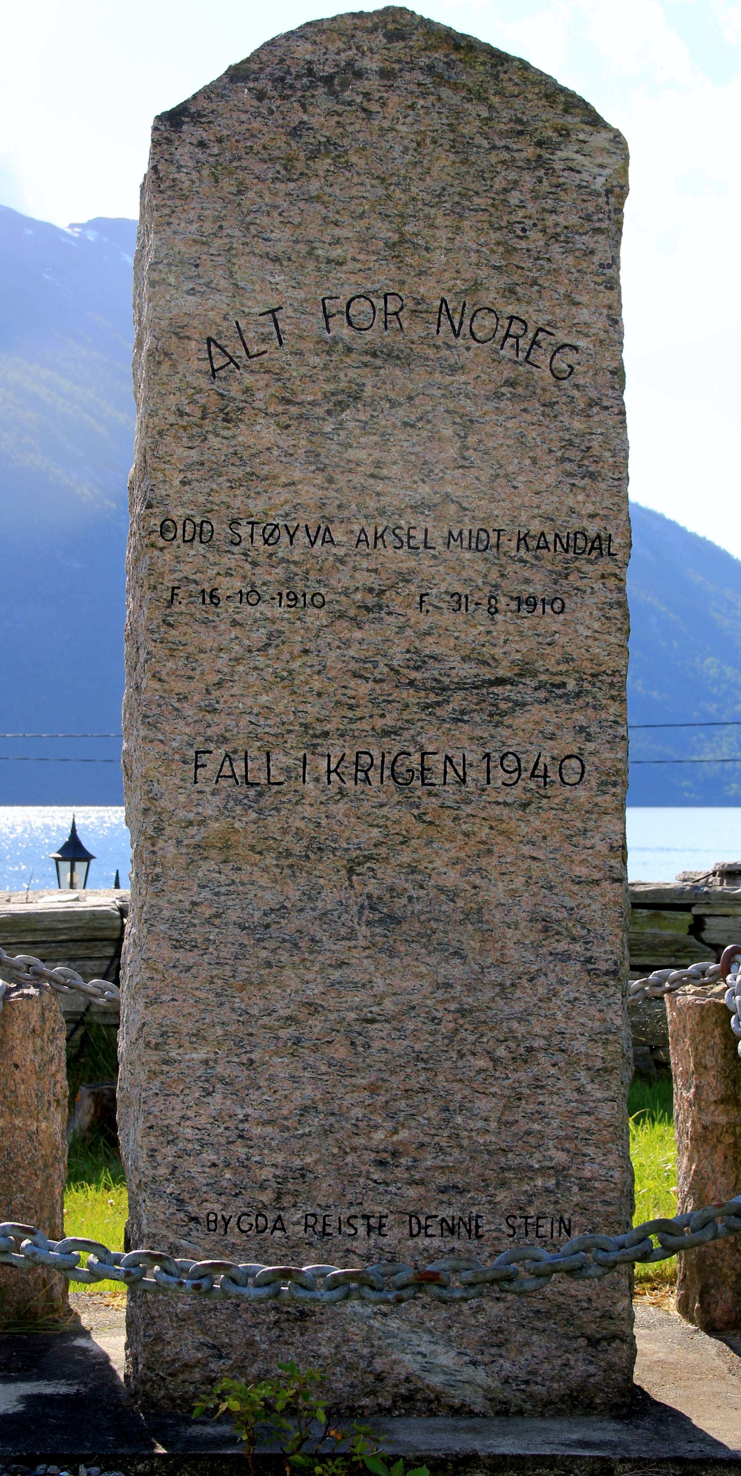 Memorial monument of fallen in ww2, Breim